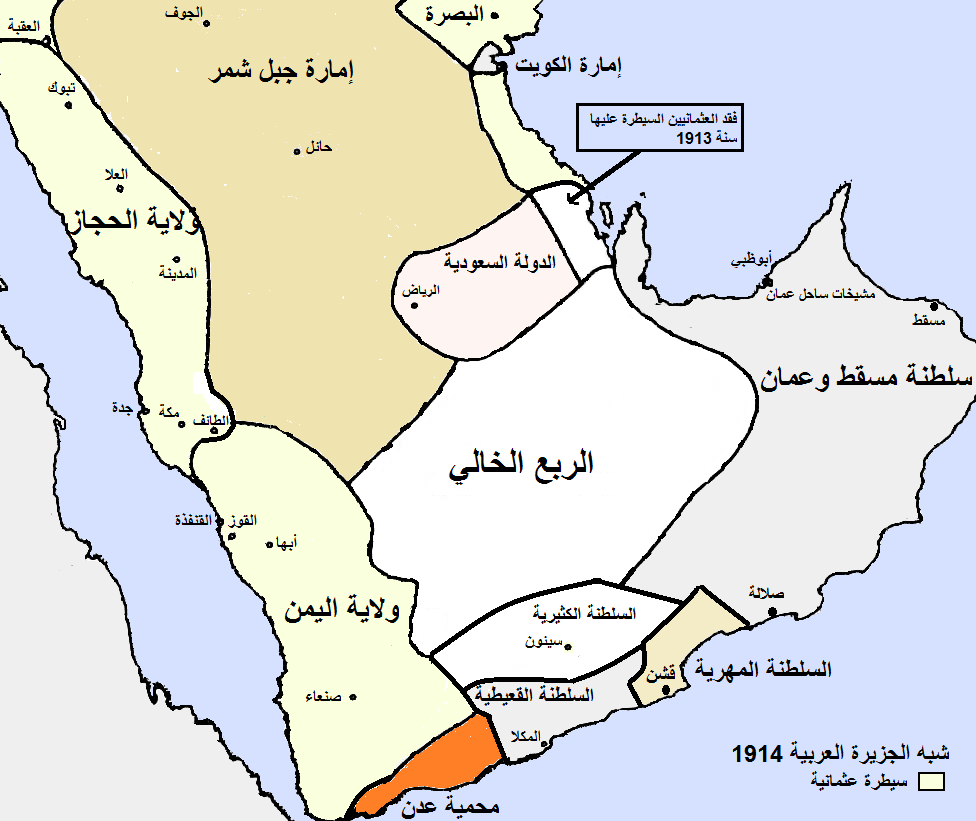 خريطة دول الجزيرة العربية قبل مائة عام